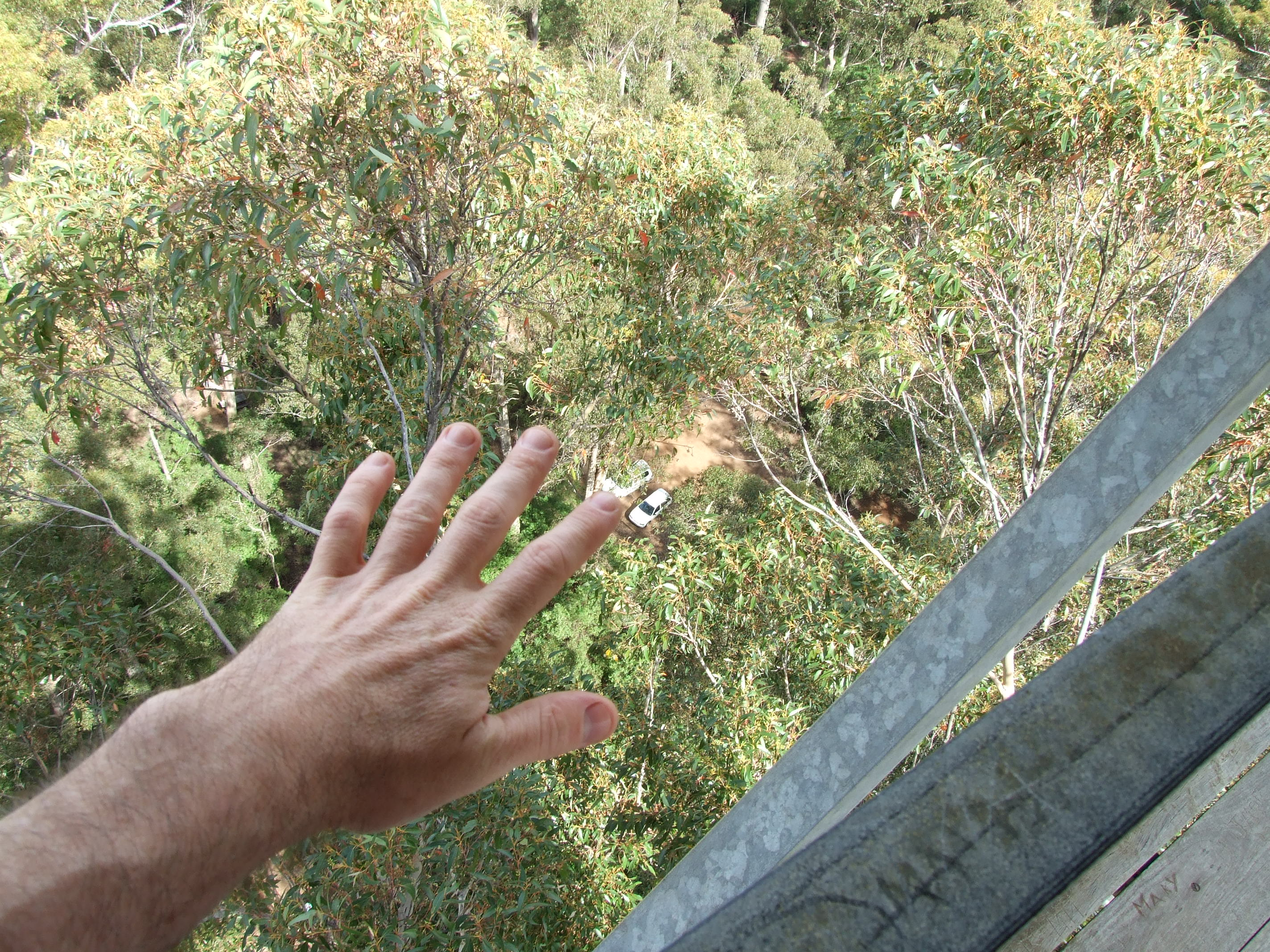 Dave Evans Bicentennial Tree, Warren National Park Western Australia. The tree has a fire lookout at the top, one of three trees in th region. for an indication of the height Grahams hand and with his car below